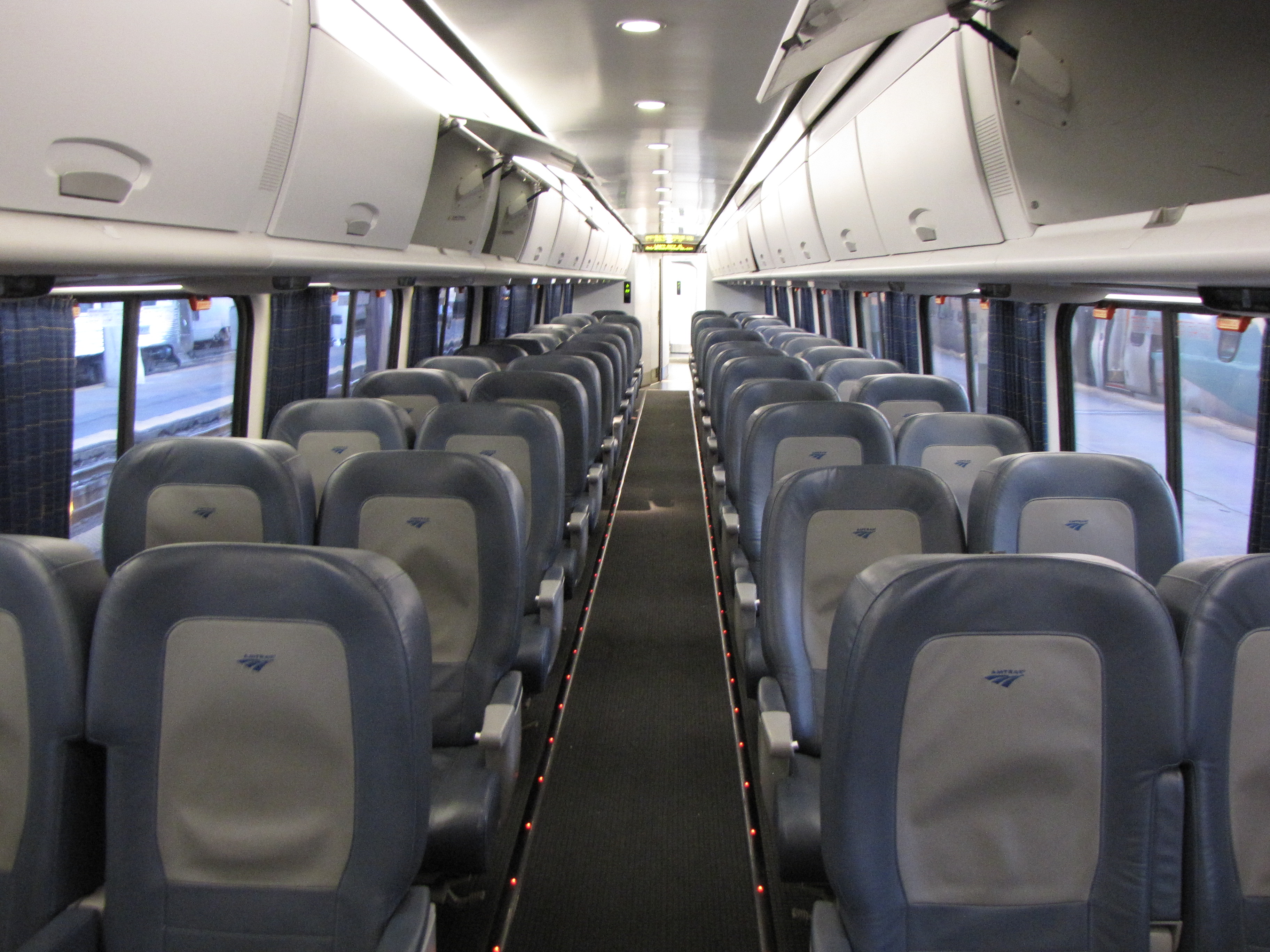 Acela Express business class interior with some overhead bins open at the end of a Boston-to-Washington run.